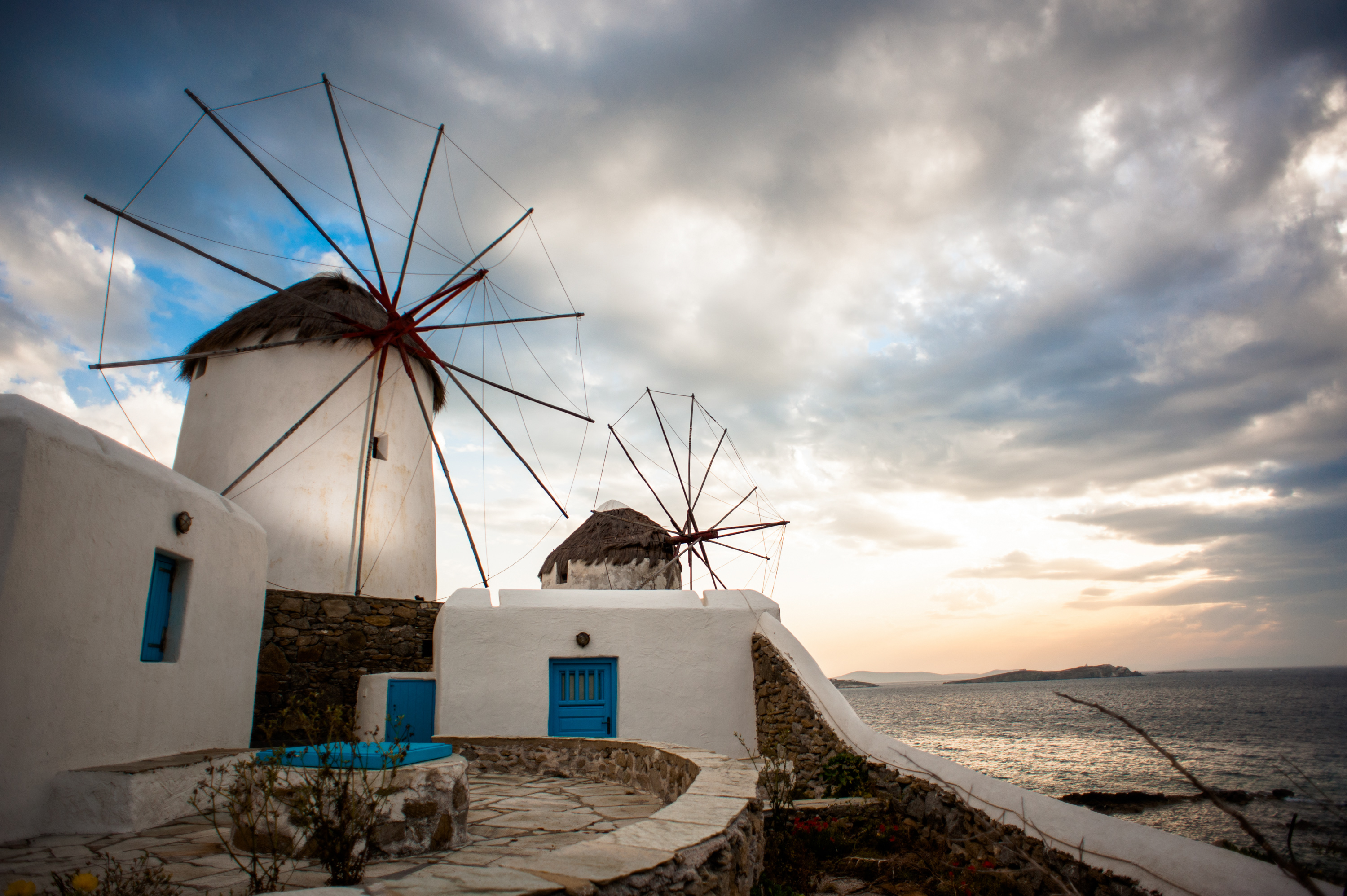 Windmills of the Mykonos Island, Chora. Cyclades, Agean Sea, Greece.